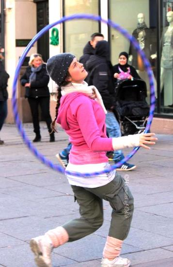 Hoopdance by Mad Moonrise on Karl Johansgate, Oslo, Norway